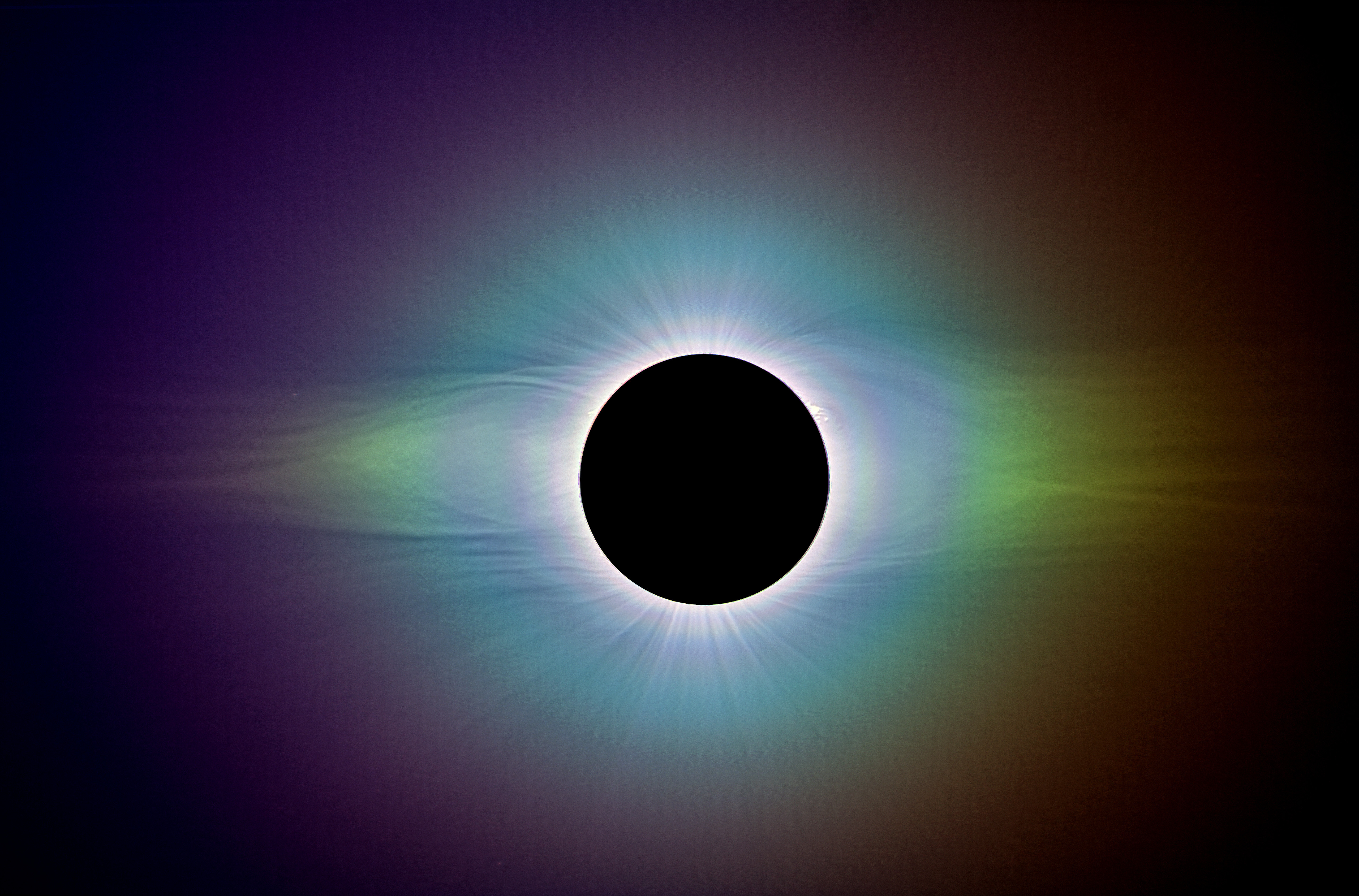 This image has been composed from different combinations of polarized images during totality, to bring out the details of the structures in the corona. The images were taken by the ESA-CESAR team observing the eclipse from ESO's La Silla Observatory in Chile, South America on 2 July 2019.